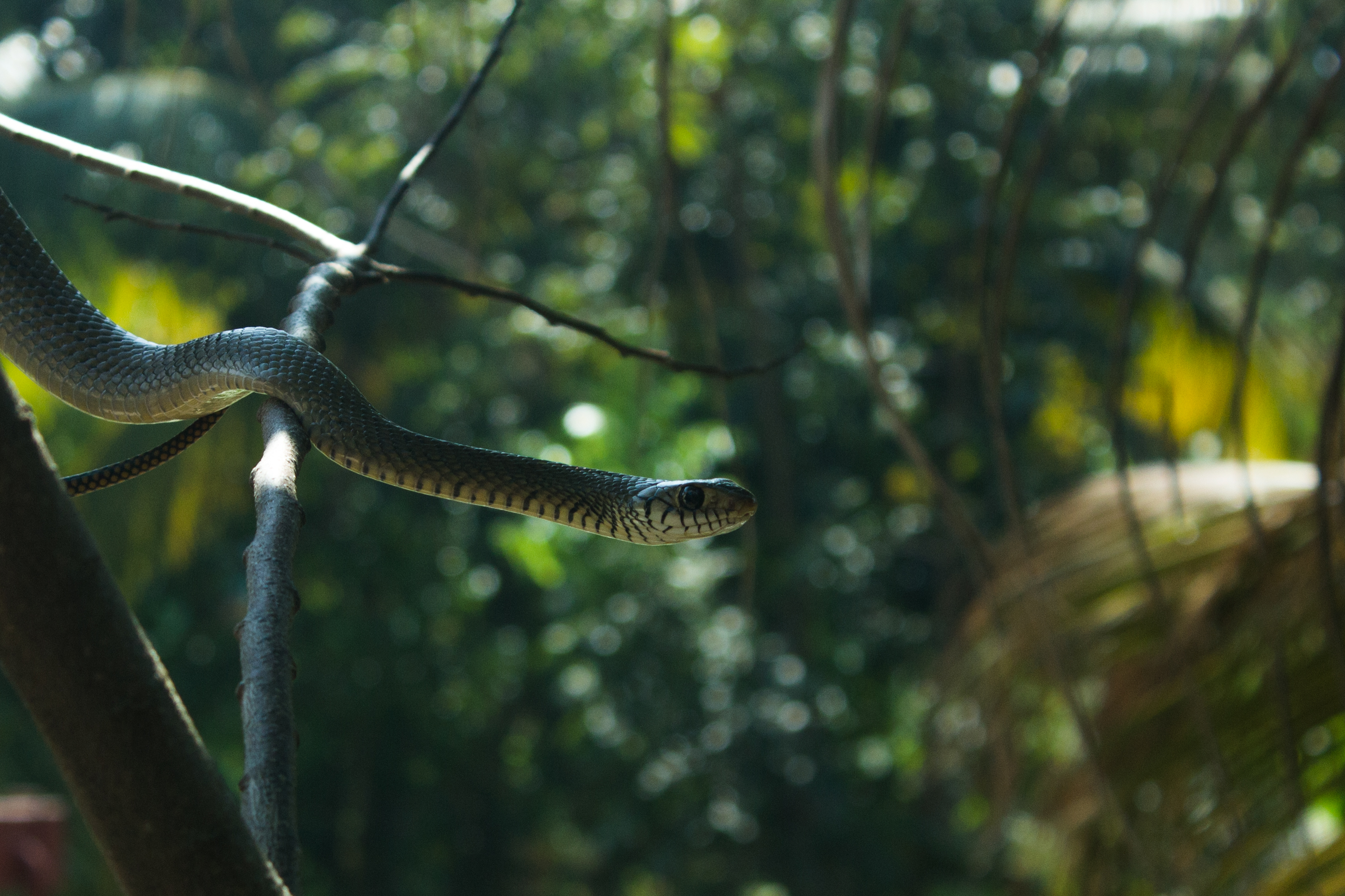 Ptyas mucosa, commonly known as the oriental ratsnake.